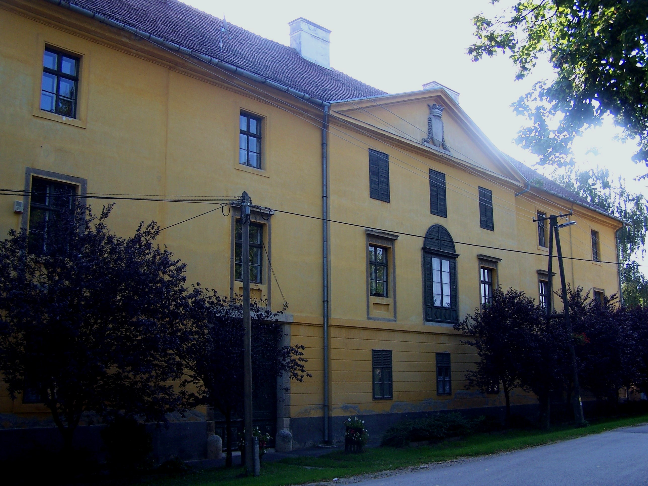 Somogyi Mansion, Pápakovácsi, Hungary This is a photo of a monument in Hungary, Identifier: 10236